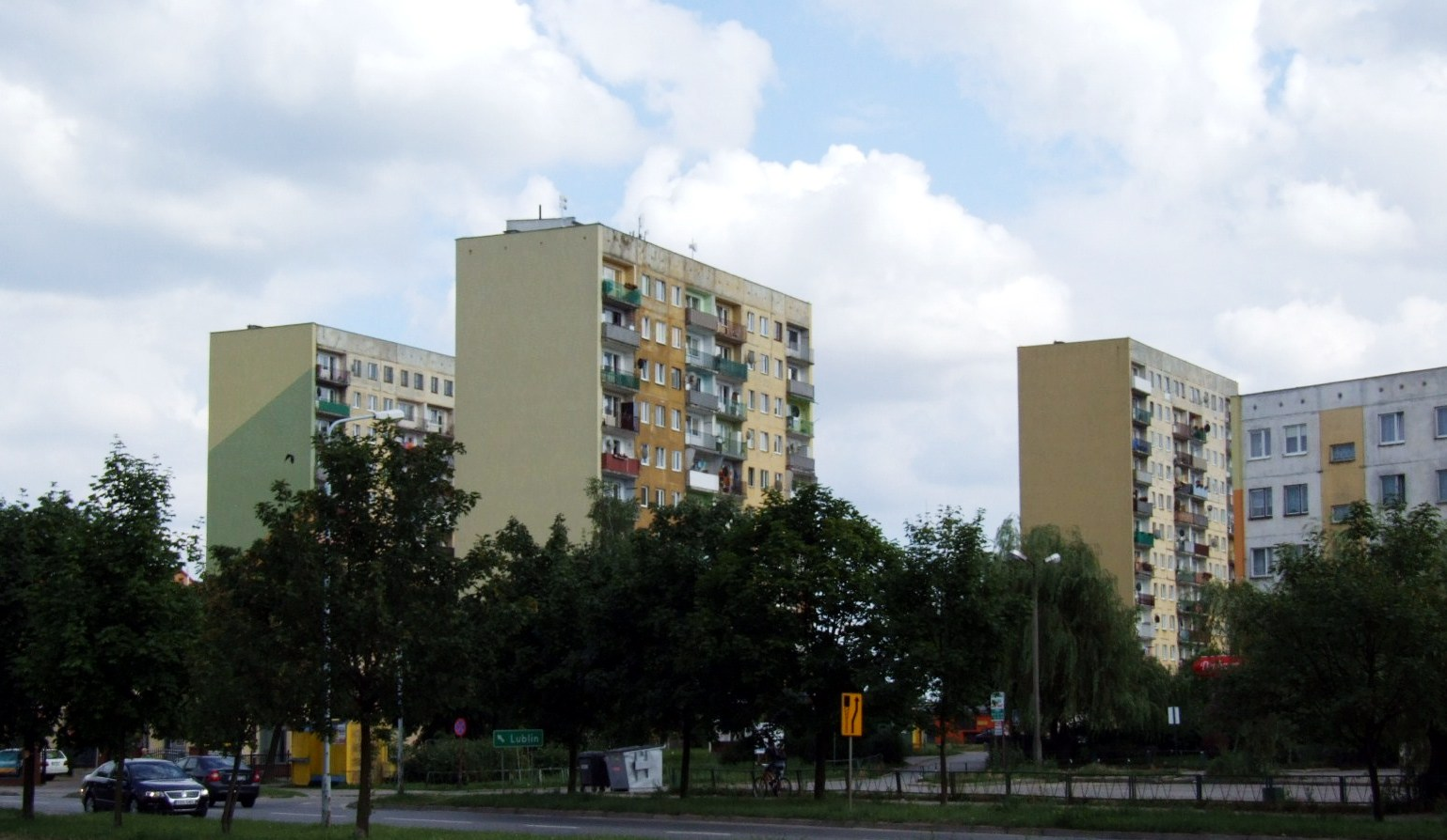 Ogrody district in Ostrowiec Swietokrzyski